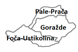 A map showing the municipalities of the Bosnian-Podrinje Canton Goražde.